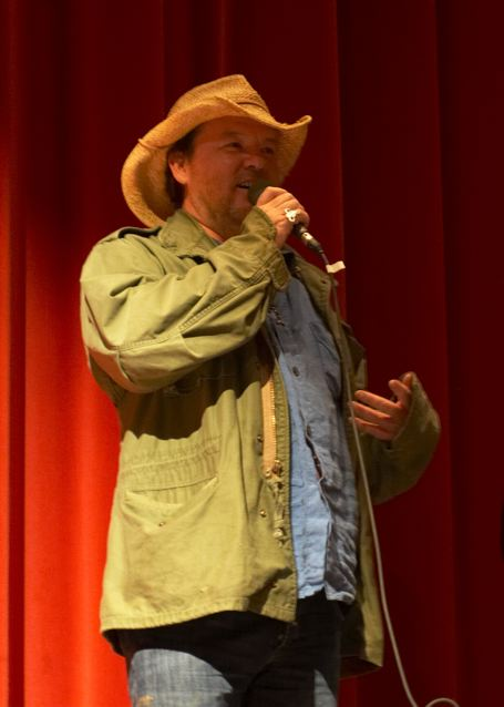 Maverick director Bruce McDonald answers questions following the screening of The Tracey Fragments at Jackman Hall in Toronto.